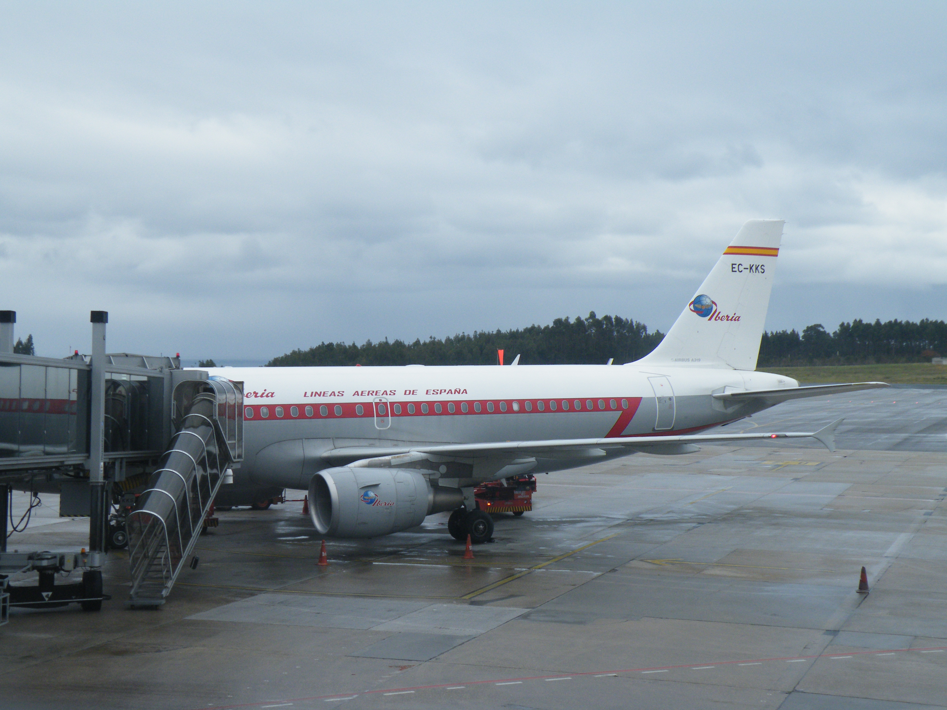 Iberia's EC-KKS Airbus 319 aircraft ready for flight Asturias-Madrid at the gate in Asturias Airport (Spain).